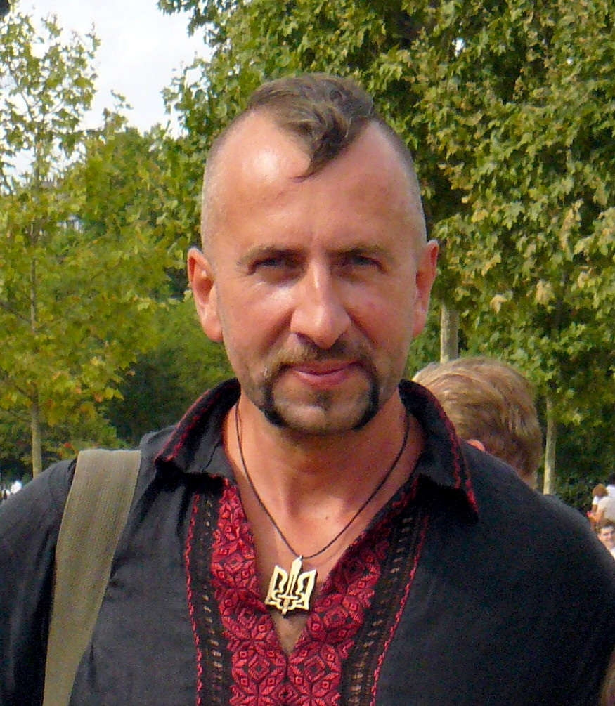 Wassyl Slipak, Ukrainian opera singer, on Ukrainian Independence Day (August 24th) 2014 in Paris. Killed on June 29th, 2016 in Donbass where he volunteered.